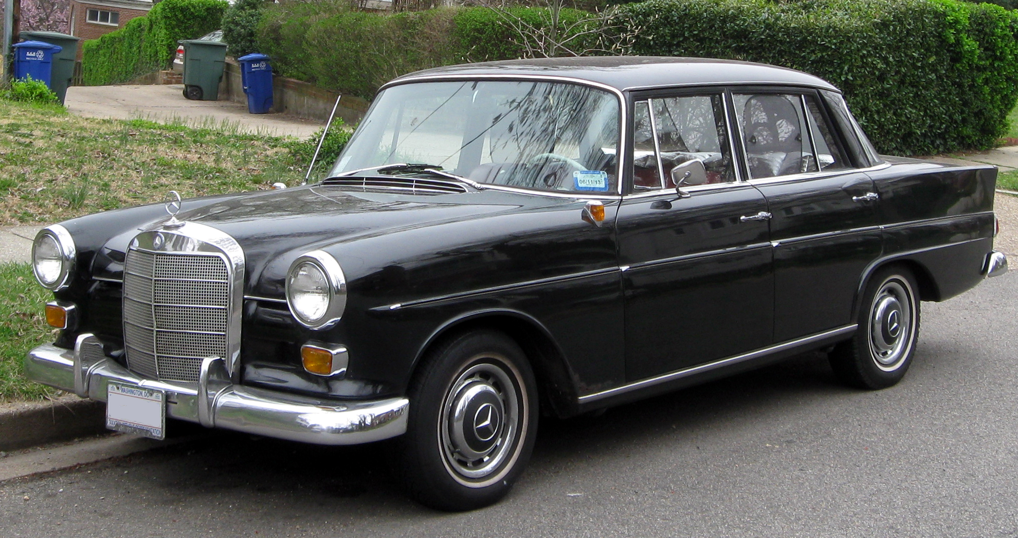 1965 Mercedes-Benz 190 D photographed in Washington, D.C., USA.